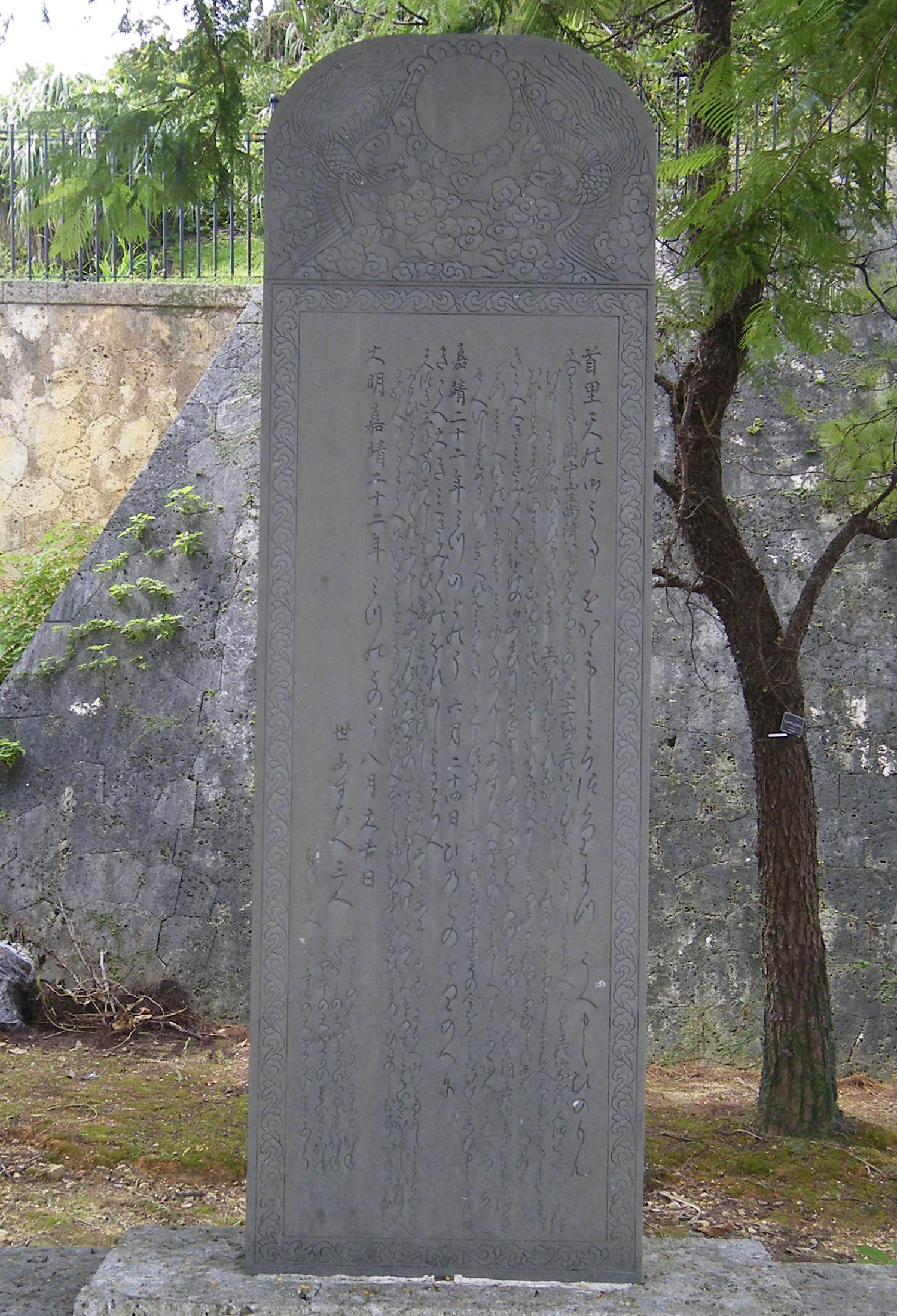 Kokuō Shōtoku Hi (Katanohana no Hi), a monument commemorating the virtue of the King Shō Sei